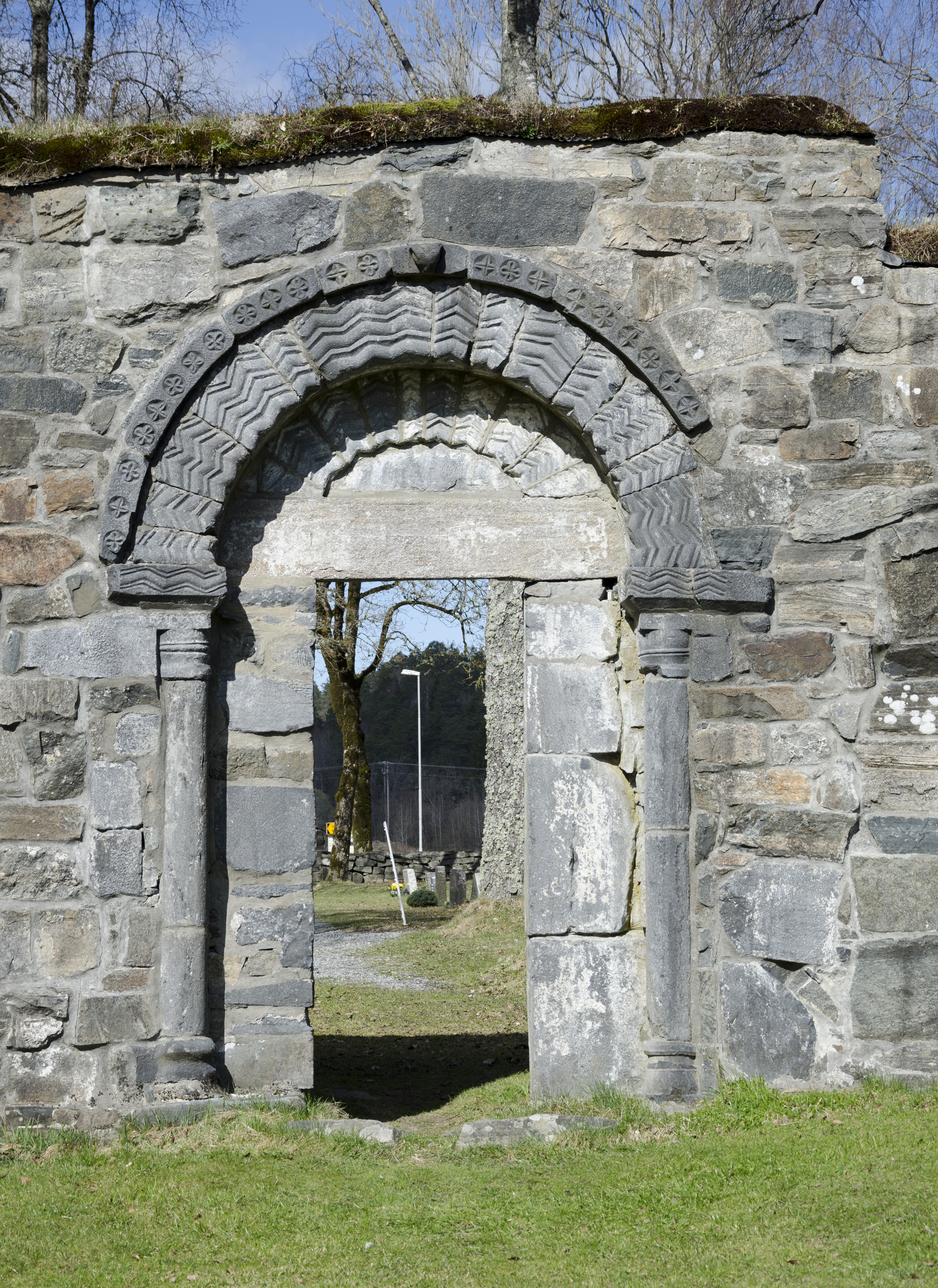 Main portal of the mediaeval Skeidi church, with double chevron arch and columns.